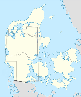 Harney County, Oregon overlaid on Denmark